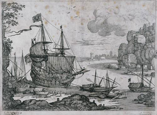 View of a Port